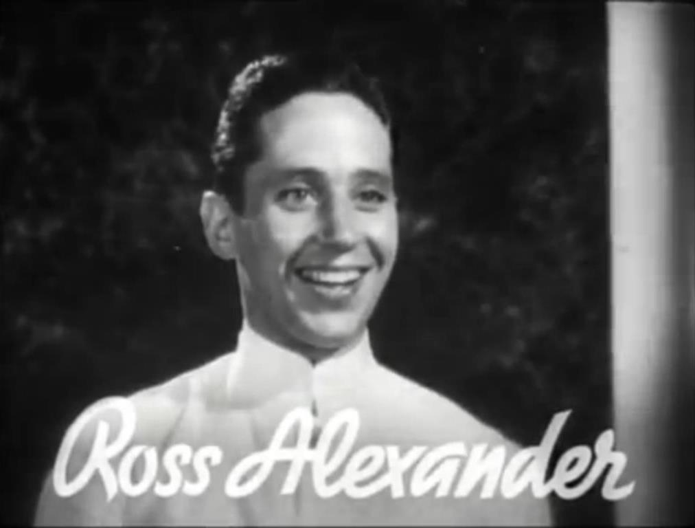 Ross Alexander in the trailer for Shipmates Forever (1935)